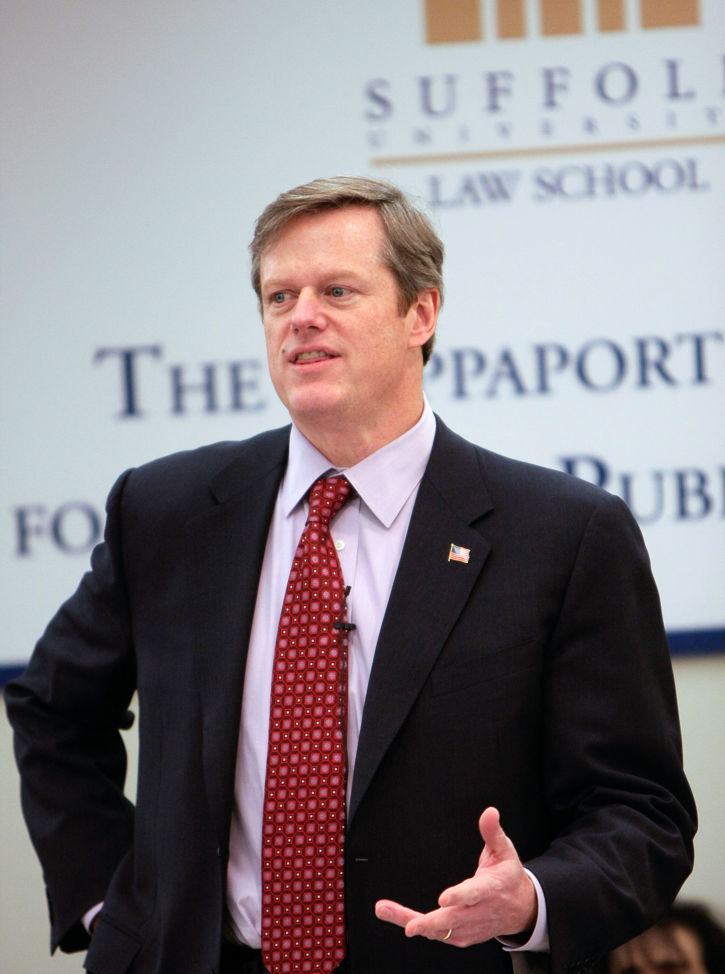 Gubernatorial candidate Charlie Baker speaks at the Rappaport Center for Law and Public Service at Suffolk University, Boston on 4 February 2010.